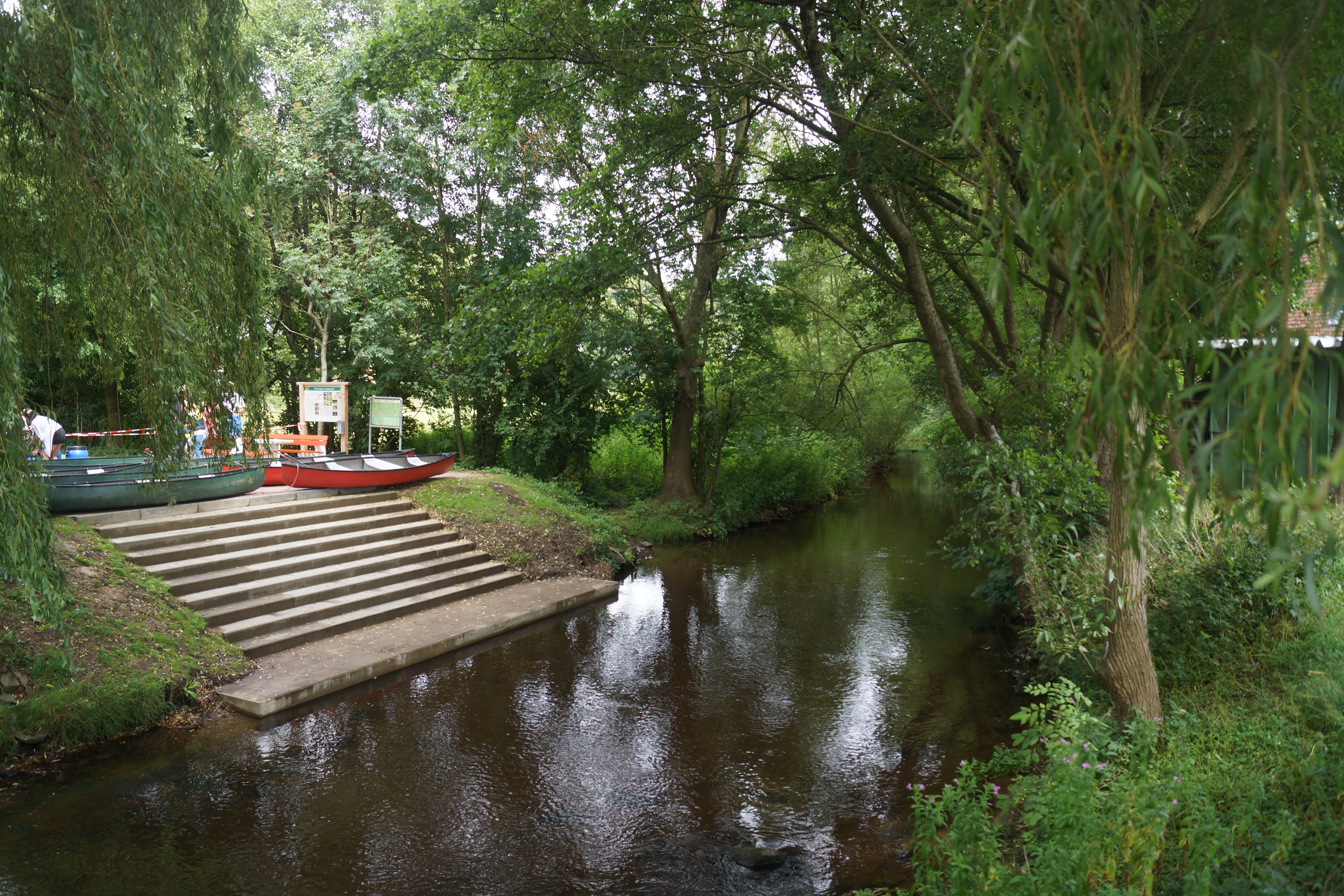 Bimöhlen, Germany: Canoe jetty at the bridge over the river Osterau